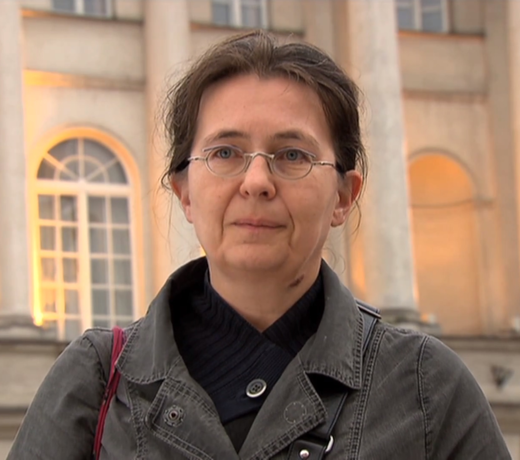 Polish anthropologist Joanna Tokarska-Bakir presented by Fundacja Dobrego Odbioru speaking on "what are the media silent about?"